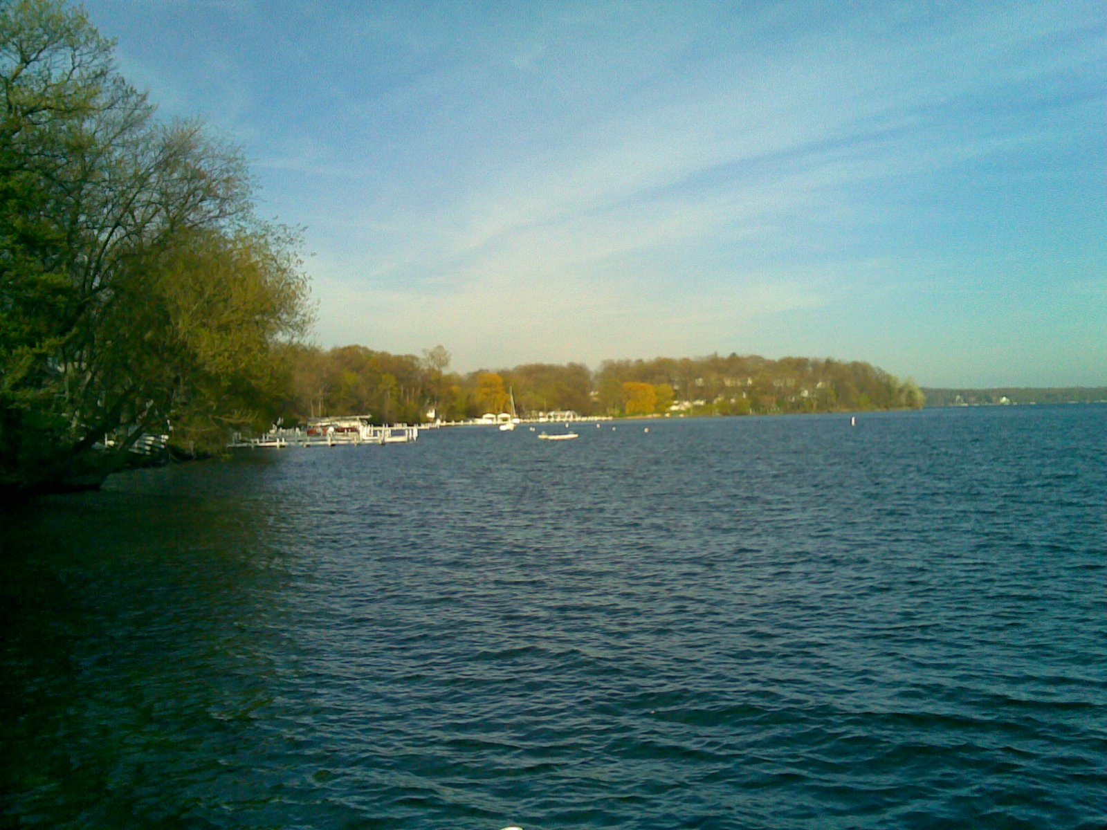 WilliamBayMau1 (Williams Bay (Wisconsin) one of three incorporated villages on Geneva Lake)